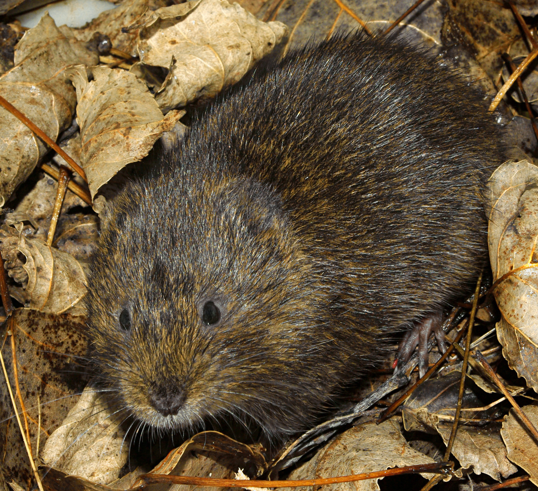 Southwestern Water Vole (Arvicola sapidus). River Porma, near Boñar (León, Spain).